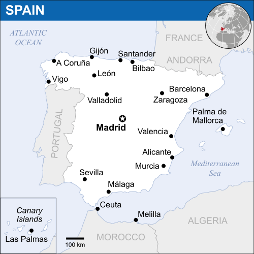 Locator map of Spain with some cities